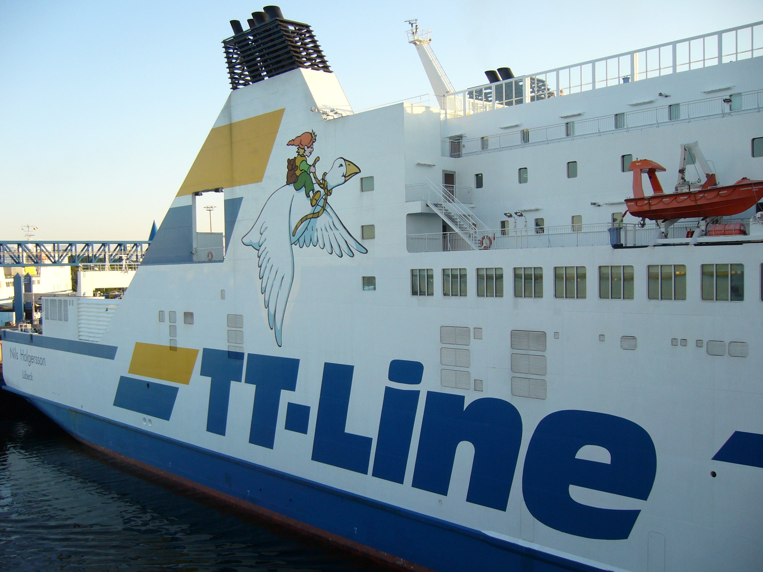 German M/S Nils Holgersson in Travemünde, Germany. IMO Number: 9217230 MMSI Number: 211343680 Callsign: DNPI Length: 189 m Beam: 28 m